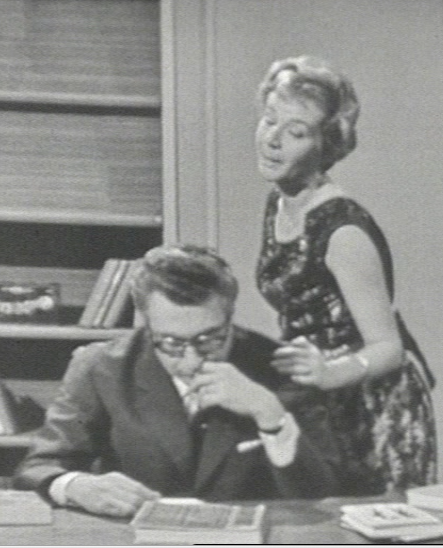 Italian writer Luigi Silori and Italian actress Carla Bizzarri on the set of RAI broadcast "Uomini e libri", 1961